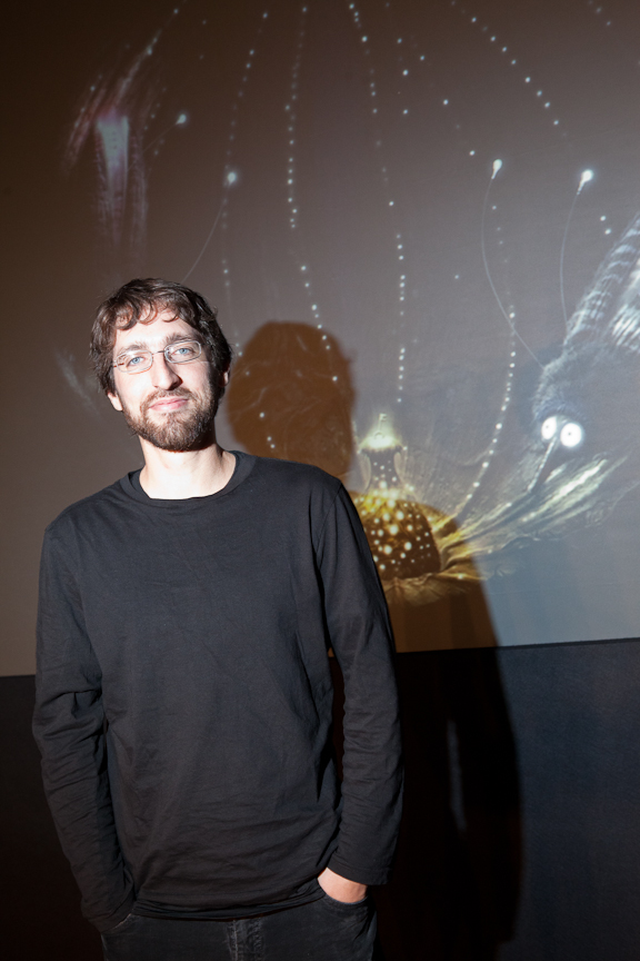 Jakub Dvorský at Game City.